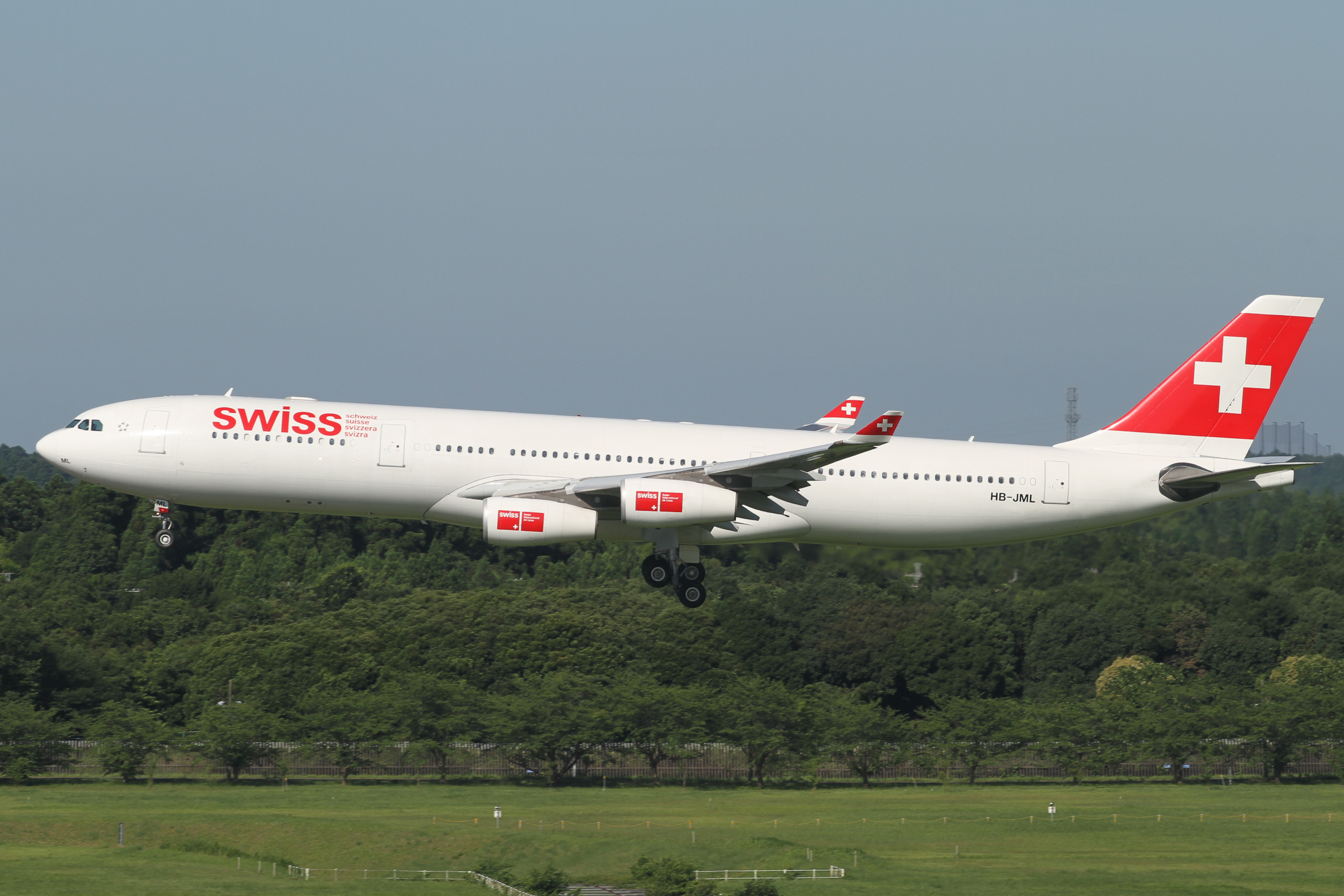 Narita International Airport, Airbus A340-313X, c/n:263, Swiss International Air Lines